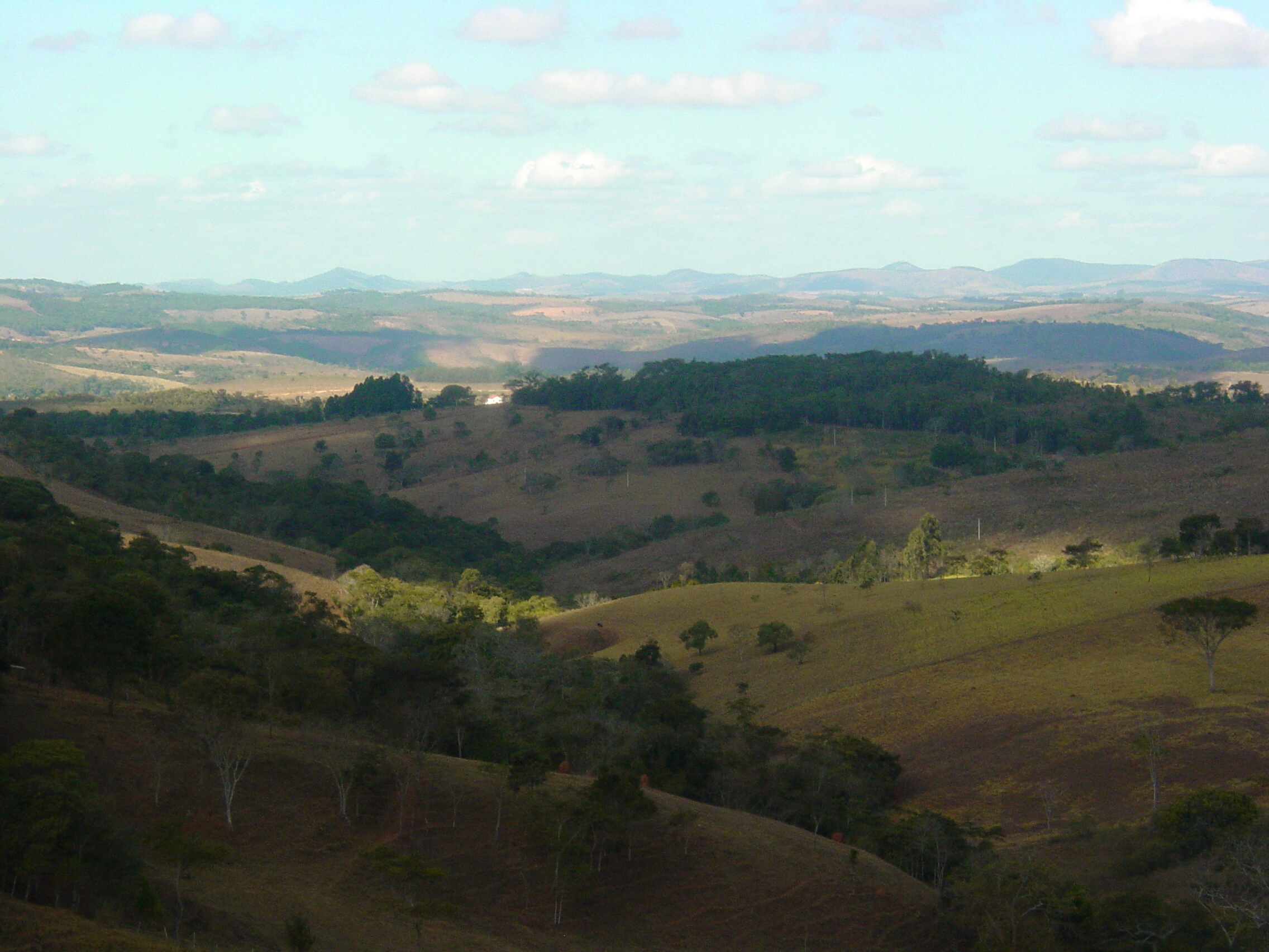 Scenery in the Minas Gerais Sierra, Brazil. July 2006.